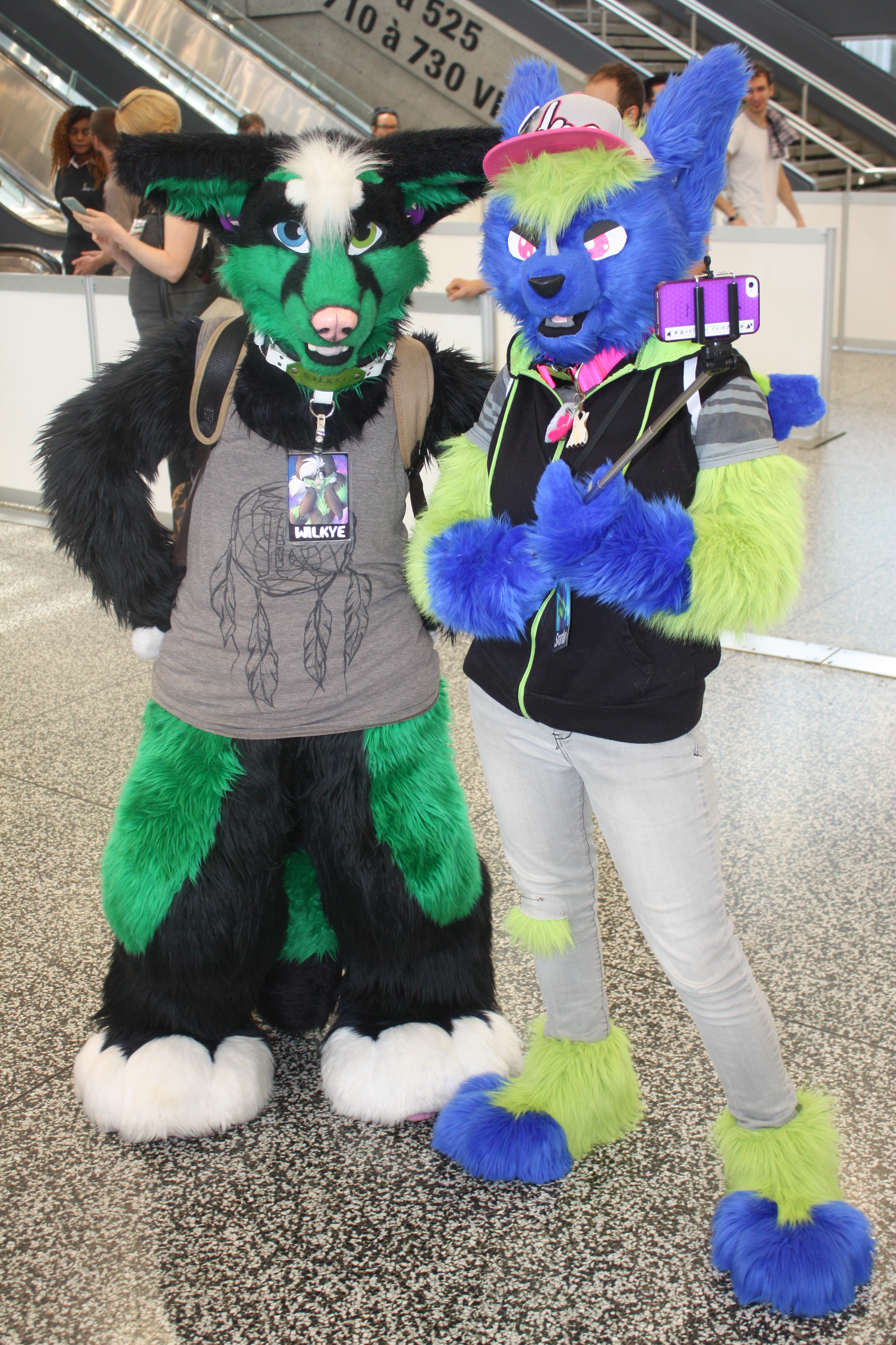 Two fursuiters on day two of Montreal Comiccon 2015. On the left is "Wilkye the Possat" (green and black) and on the right is "Sparky the Corgi" (blue and green).